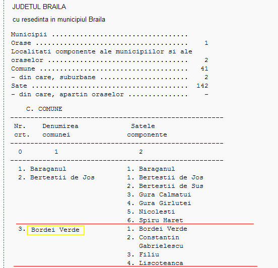 Author - Macreanu Iulian Description - a text file wrote by me, based on the provision of the Romanian Law no. 2/1968 Restrictions - The file can be used without no restrictions Notice - the data and information from the file are taken from the Romanian Law no. 2/1968, a document already in the public domain